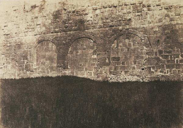 Temple Wall: Triple Roman Portal (Huldah Gates), Jerusalem.